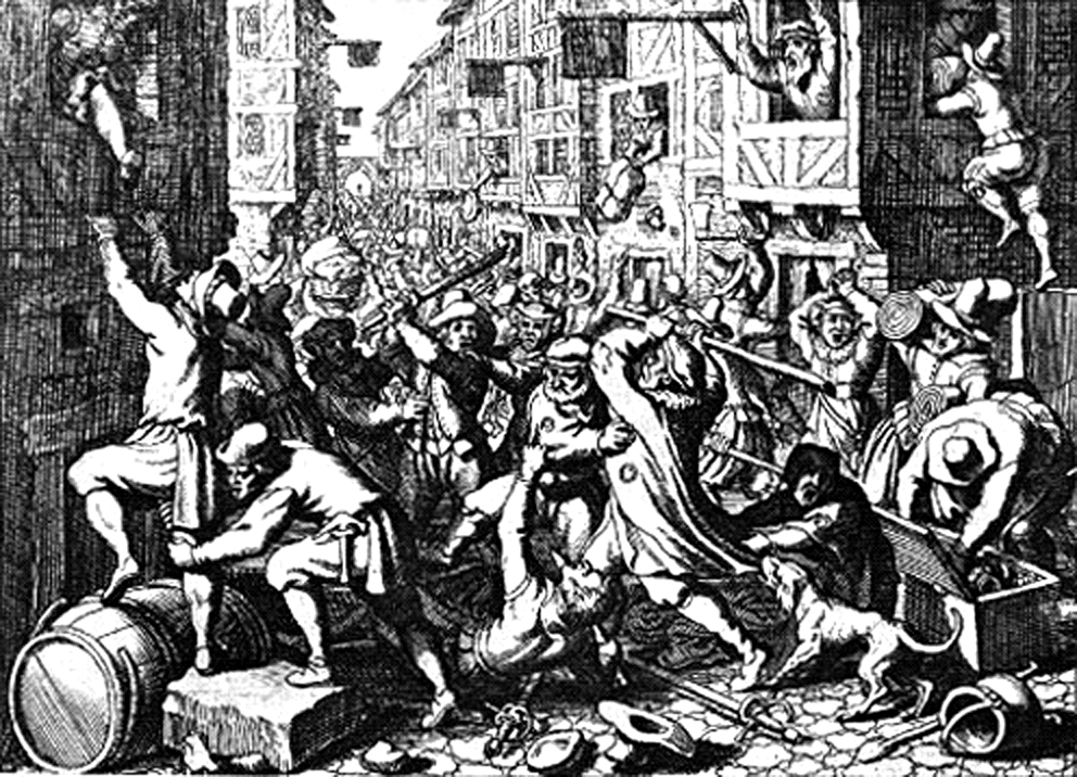 The plundering of the Judengasse during the Fettmilch riot, 22 August 1614. Engraving by Matthäus Merian in 1628